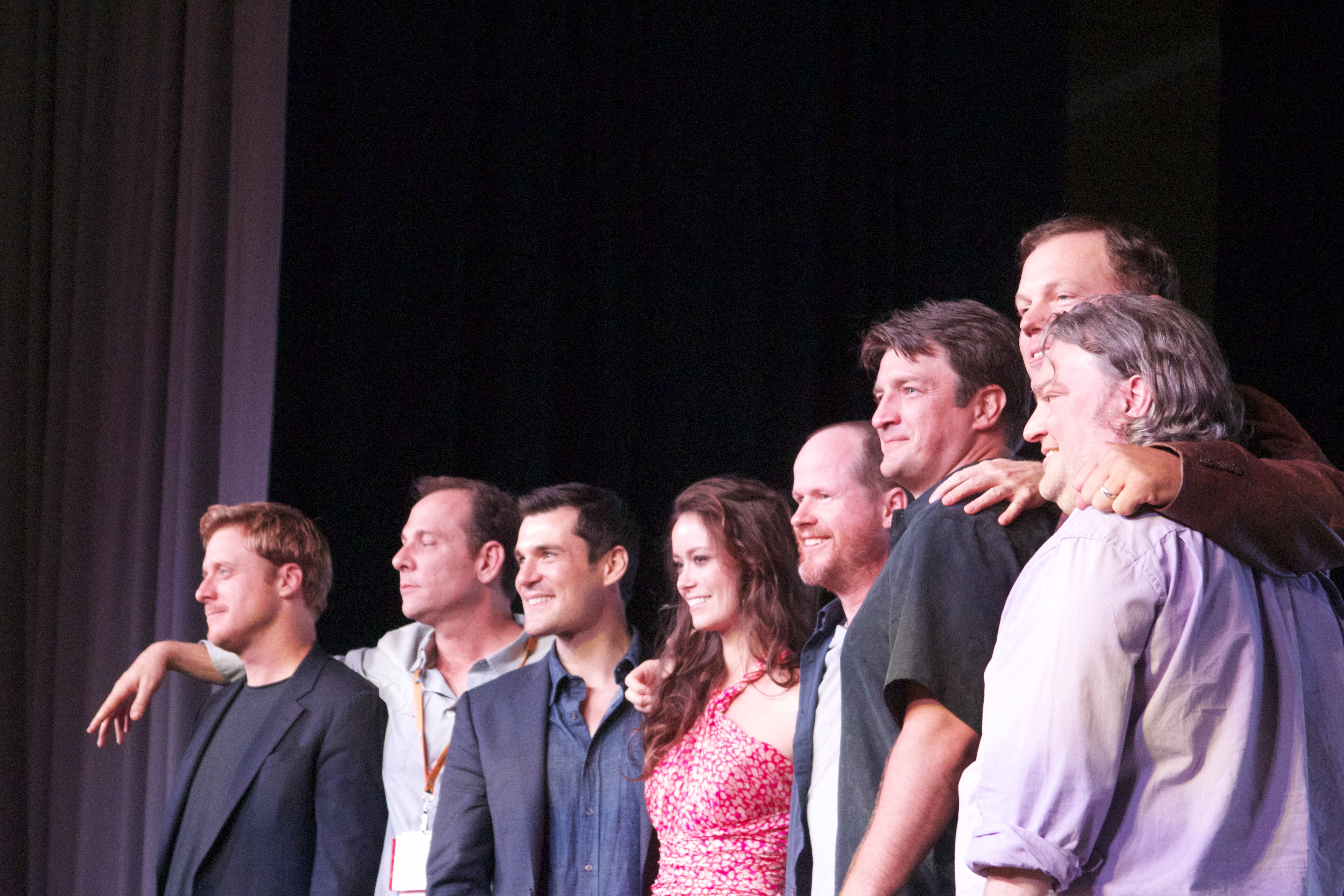 Firefly cast from the 20th anniversary panel at the 2012 San Diego Comic-Con